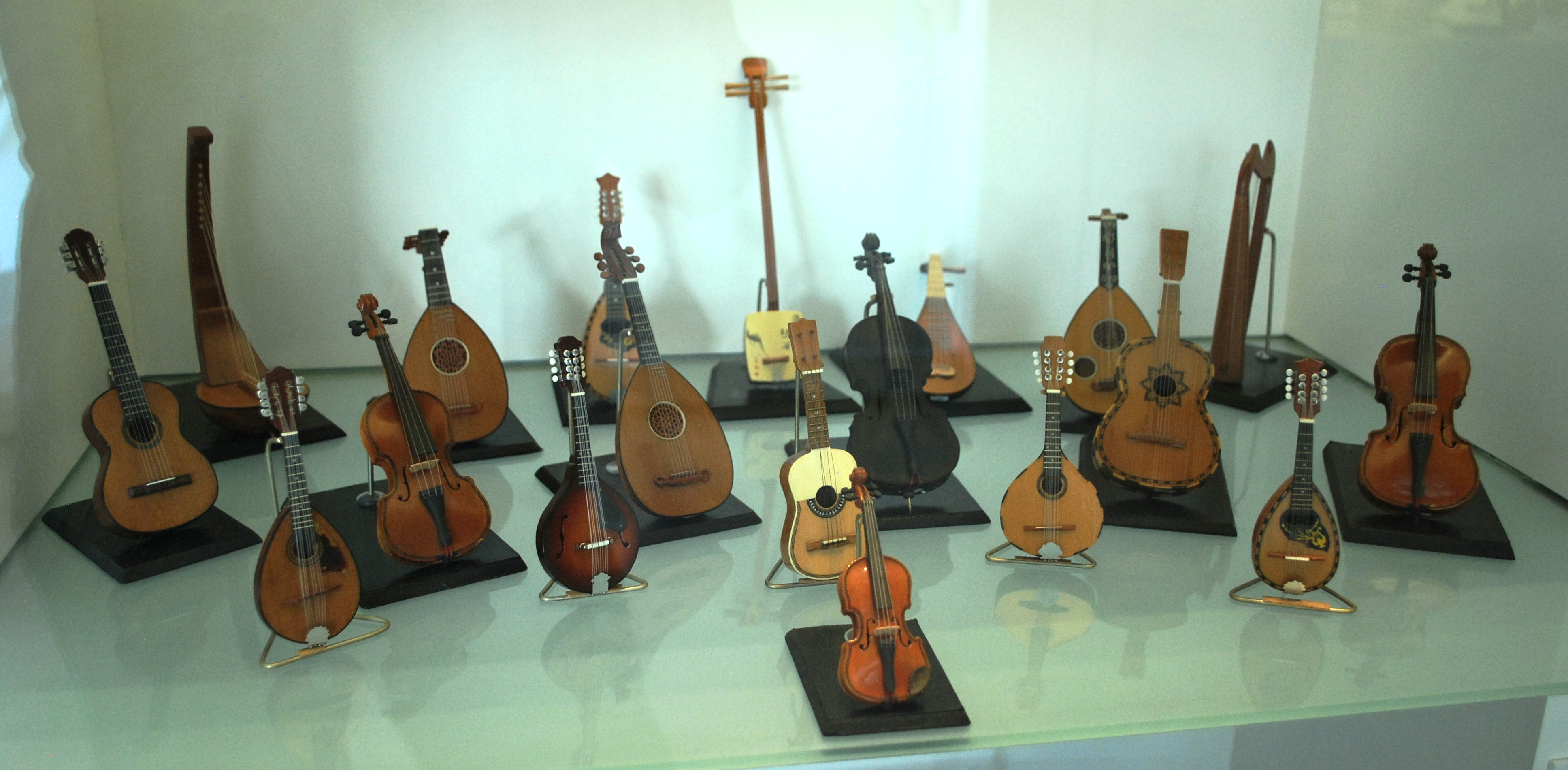 Display of folk string instruments such as guitars and violins at the Museum of Artes Populares in Mexico City